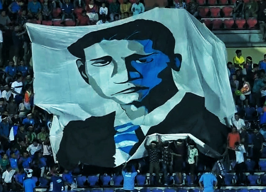 Blue Pilgrims urfurling the Talimeren Ao Tifo during the India's 2020 World Cup qualifying match against Oman at Guwahati.